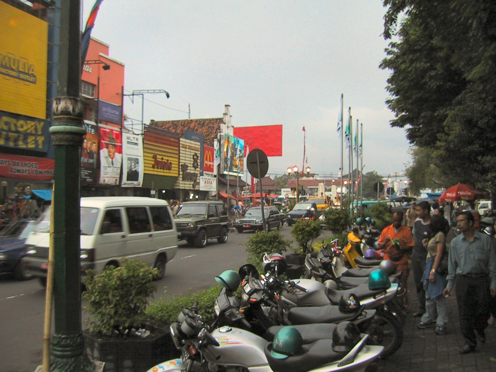 Malioboro street, Yogyakarta Indonesia